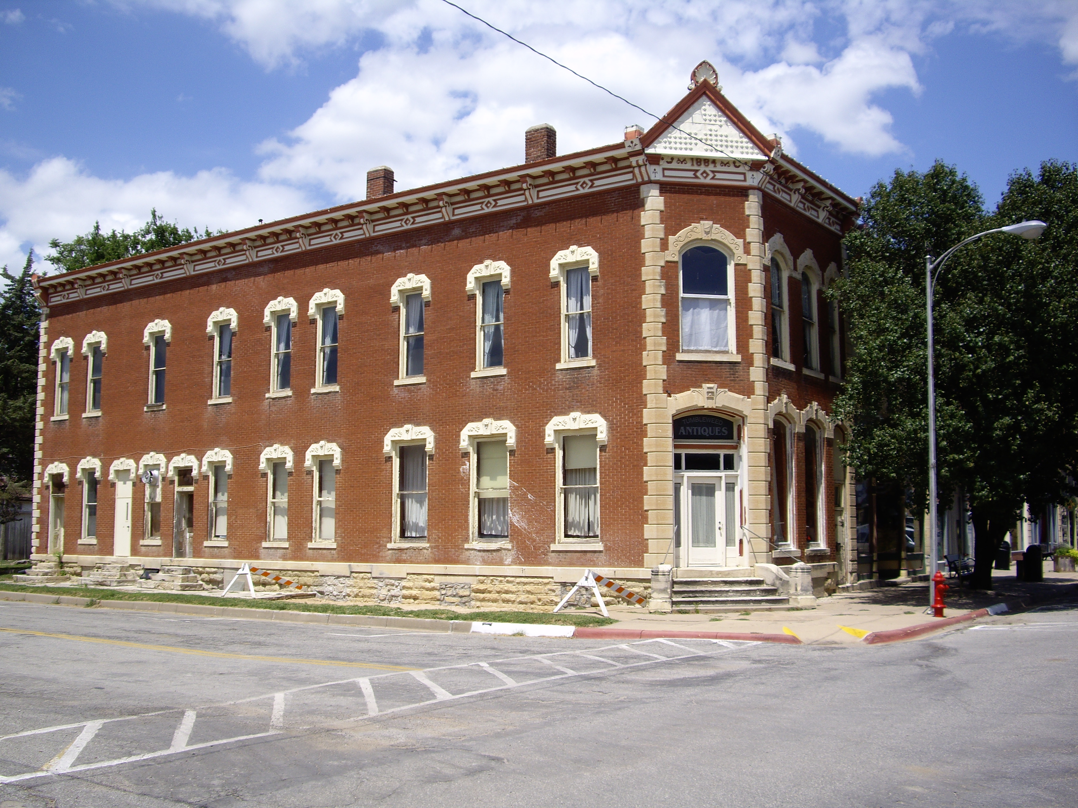 Historic 1884 Peabody Bank, 101 N Walnut St, Peabody, Kansas, 666866, USA. Looking northwest. It was a bank from 1884 to 1922, then replaced by current bank at 201 N Walnut St. Photo by Steve Meirowsky on August 4, 2010. Note: The sidewalk was damaged during the flood of spring 2010, then was fixed sometime after this photo.